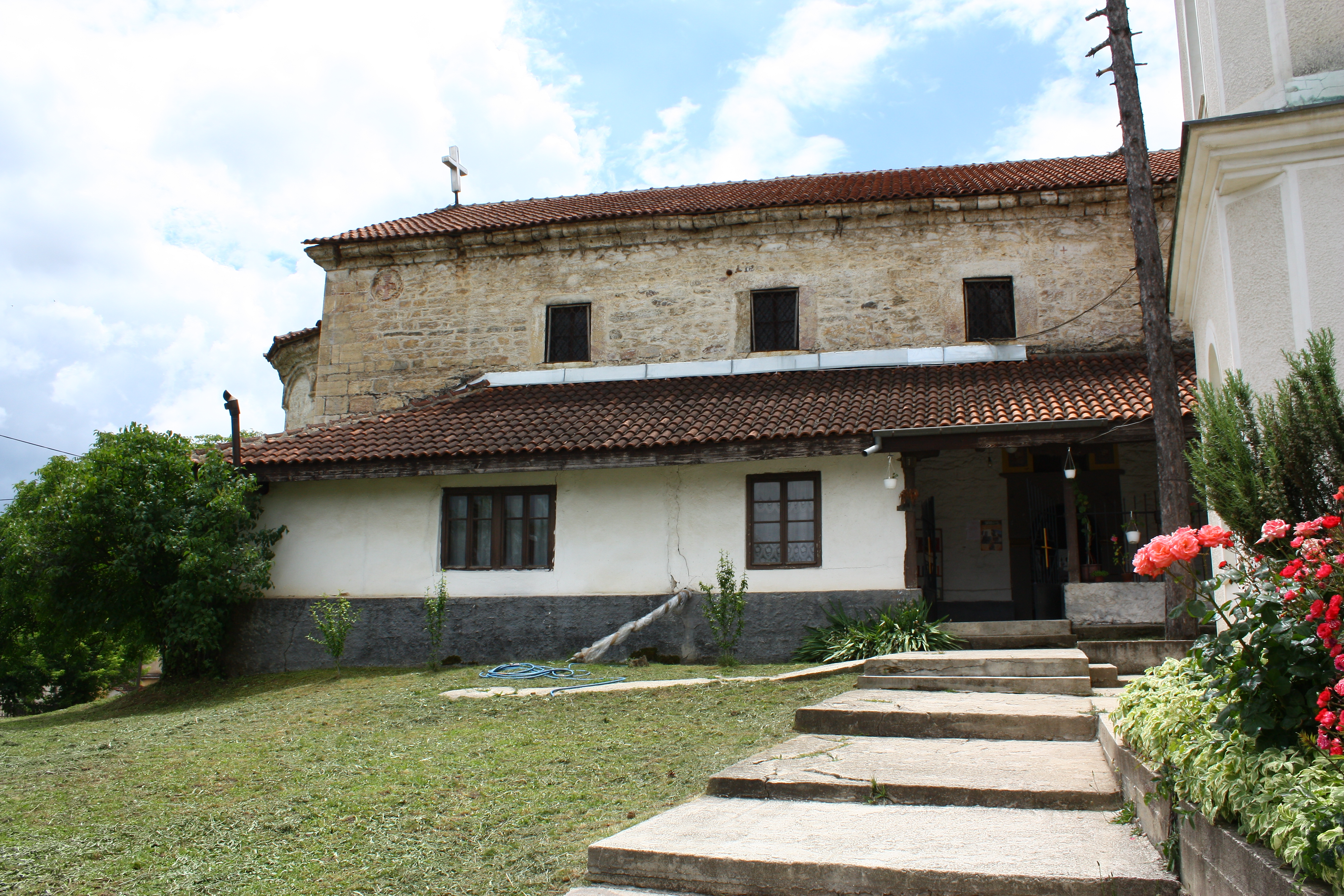 St. George Church in Resen, Macedonia